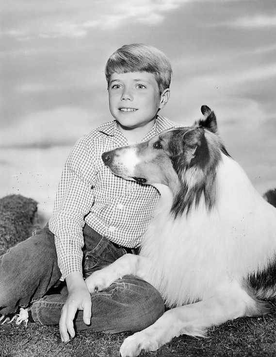 Publicity photo of Jon Provost and Lassie from the television program Lassie.